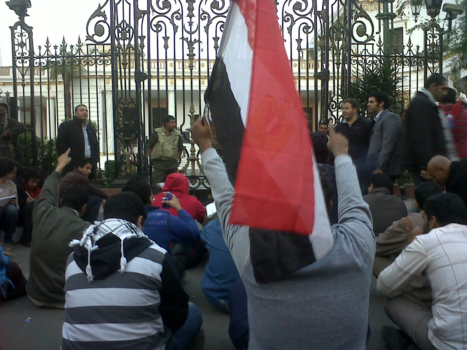 Demonstrators and army outside the Egyptian parliament on February 8, during the Egyptian Revolution of 2011.